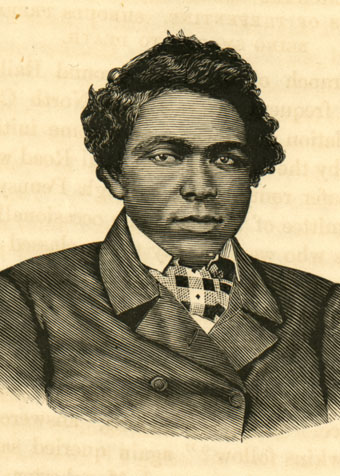 Engraved portrait of Abraham Galloway. From William Still's Underground Railroad, p. 150-151, published 1872, by Porter & Coates, Philadelphia.